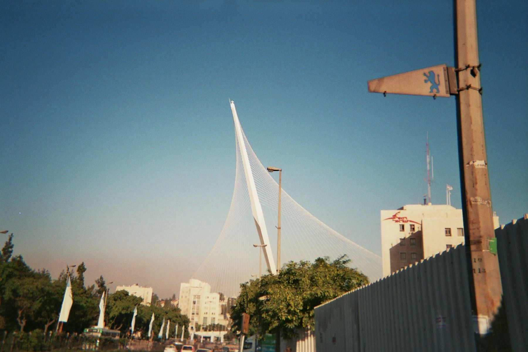 chord bridge in Jerusalem